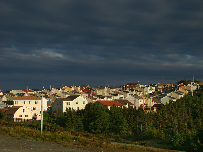 Paradise, Avalon Peninsula, Newfoundland, Canada. At sunset.